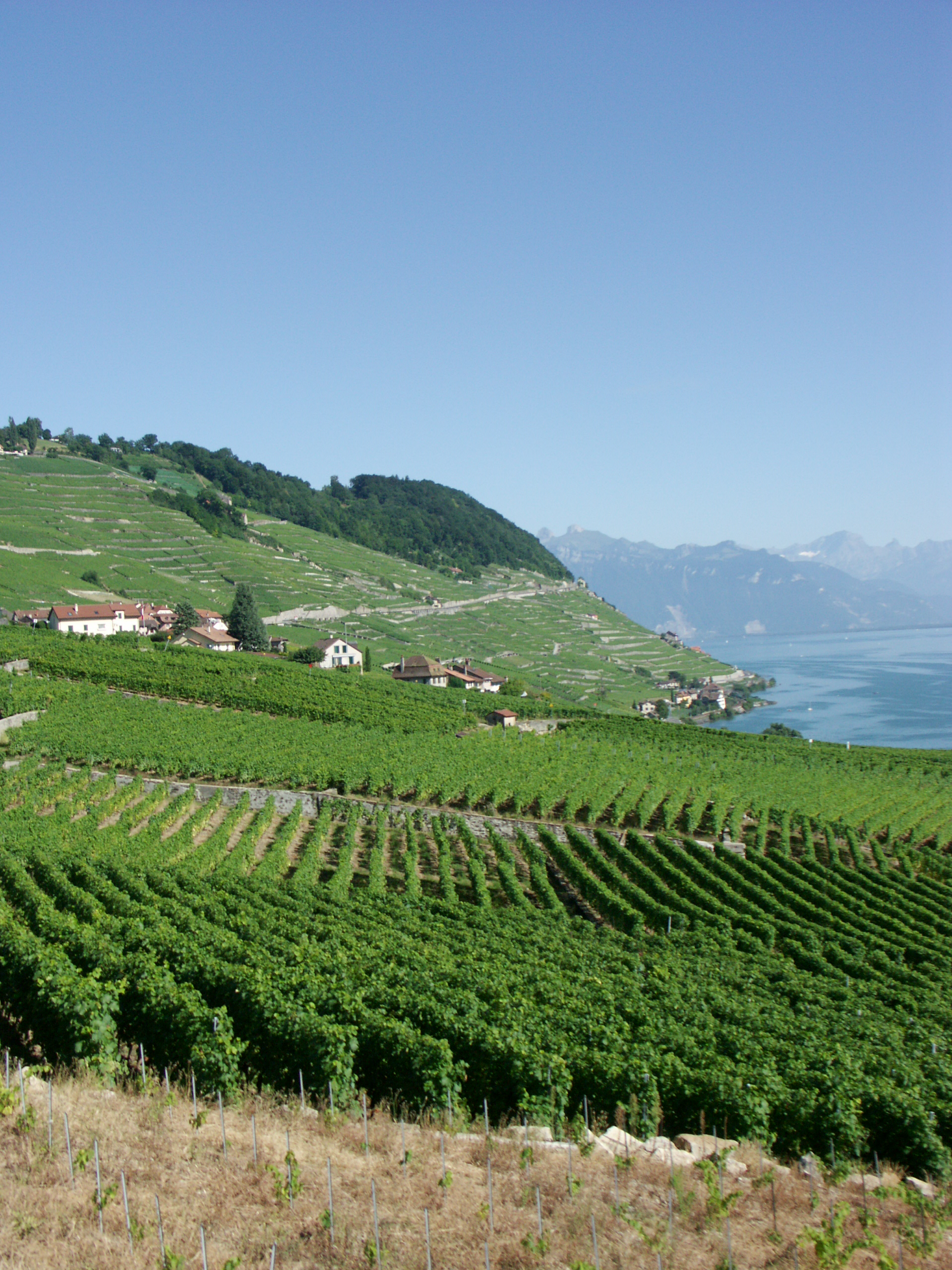 The Lavaux's Vineyards (UNESCO)